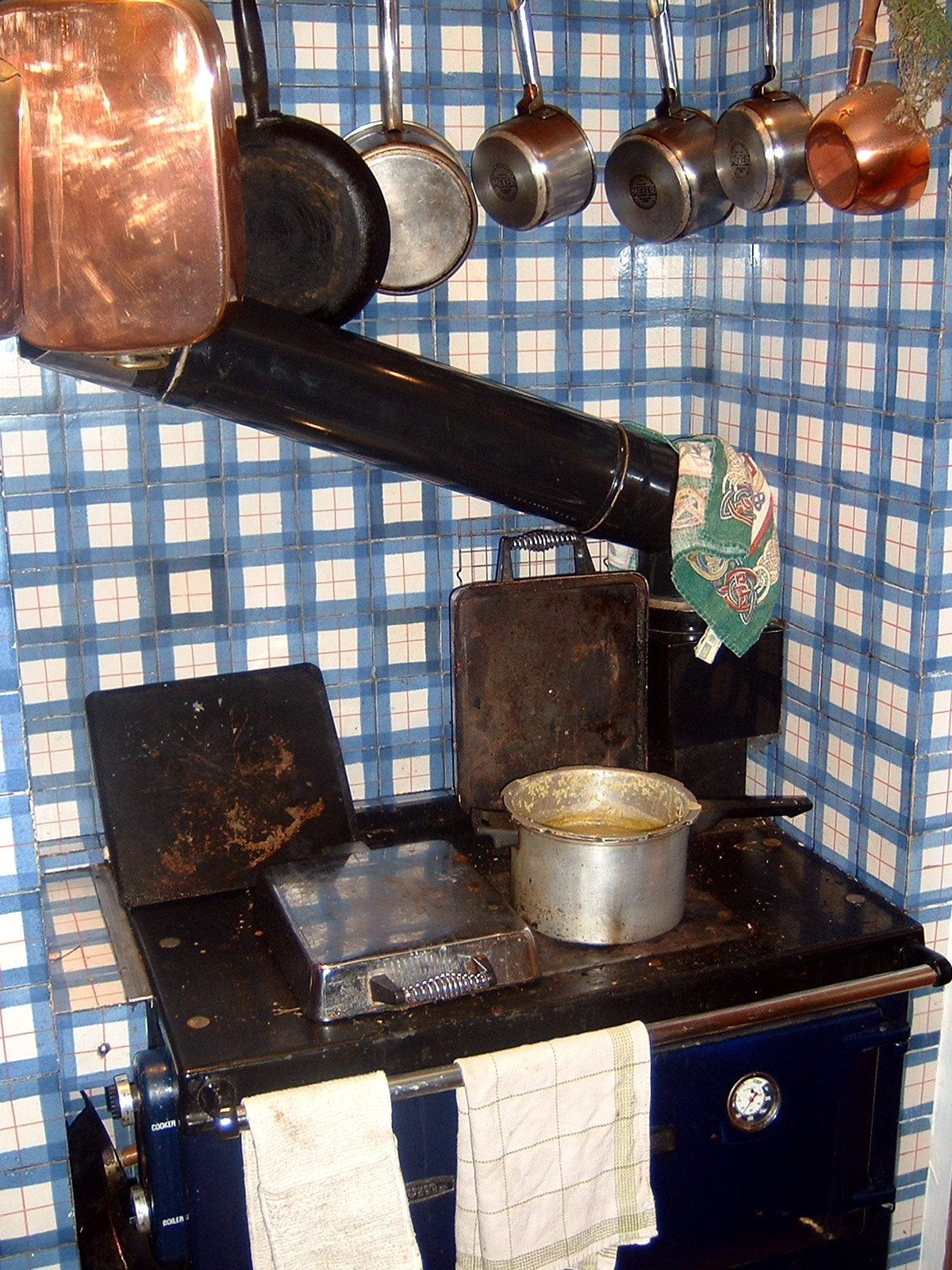 A Rayburn Range.